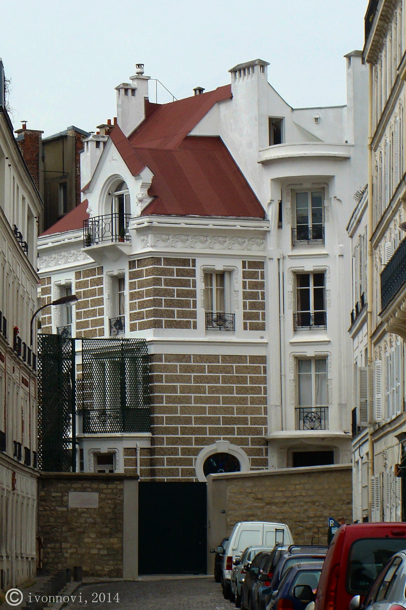 Dalida's house, rue d'Orchampt, Montmartre, Paris